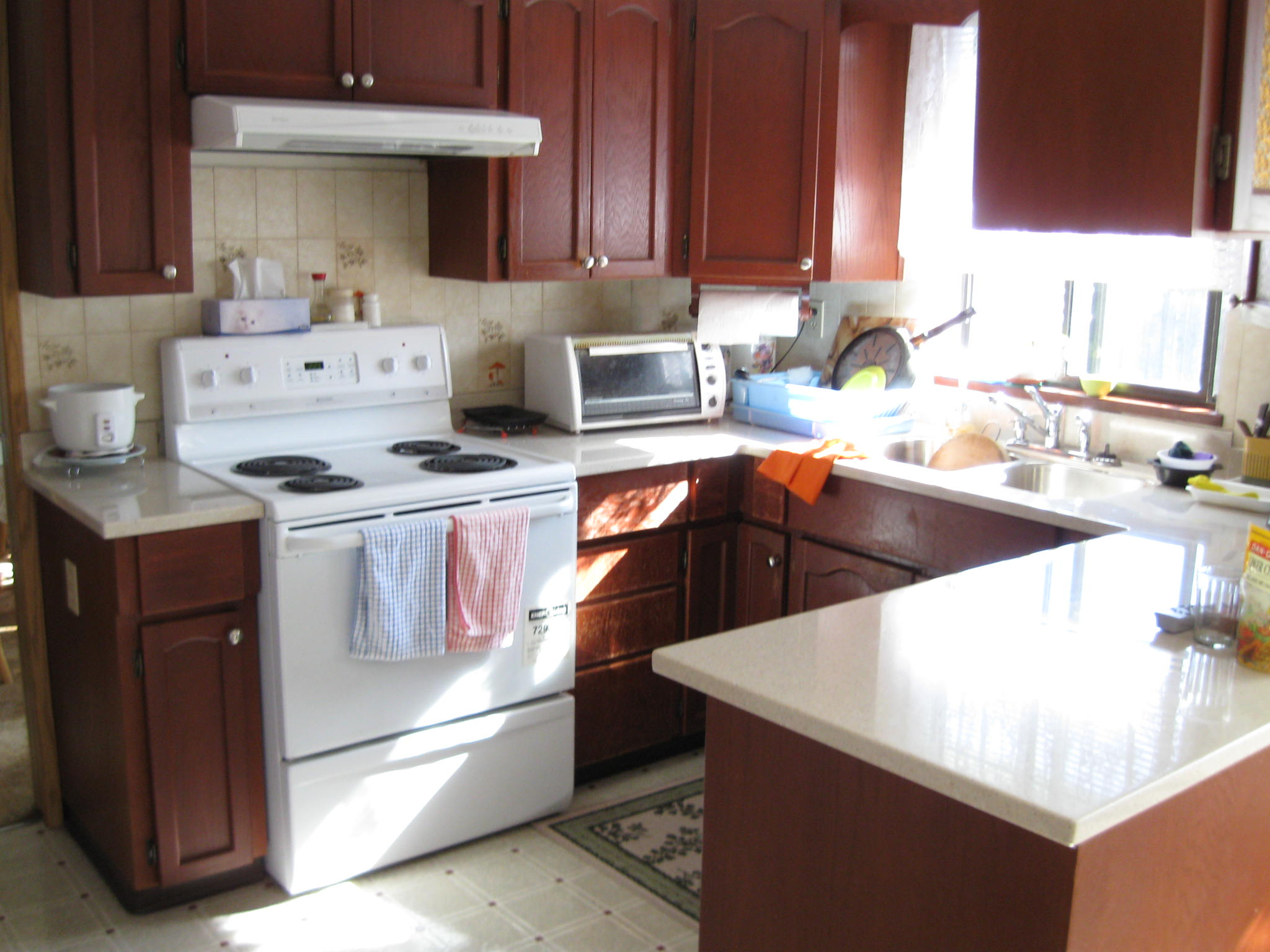 Our humble house kitchen with updated imitation corian countertops.